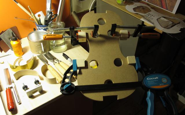 The mould and blocks.